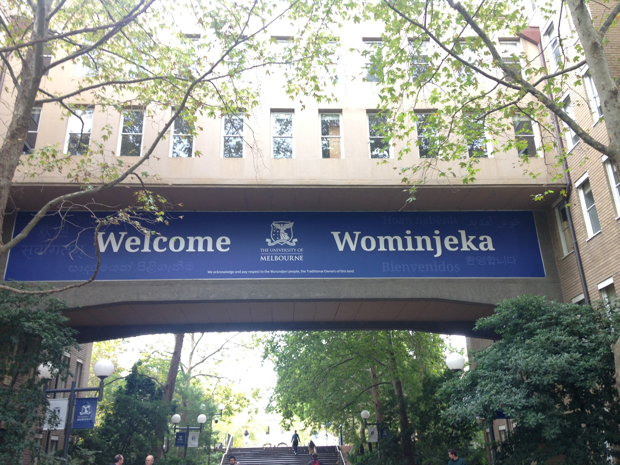 University of Melbourne welcome sign using Woi-wurrung language on Medley building. Taken en route to Melbourne Knowledge Week Wikimedia focus group with University of Melbourne students